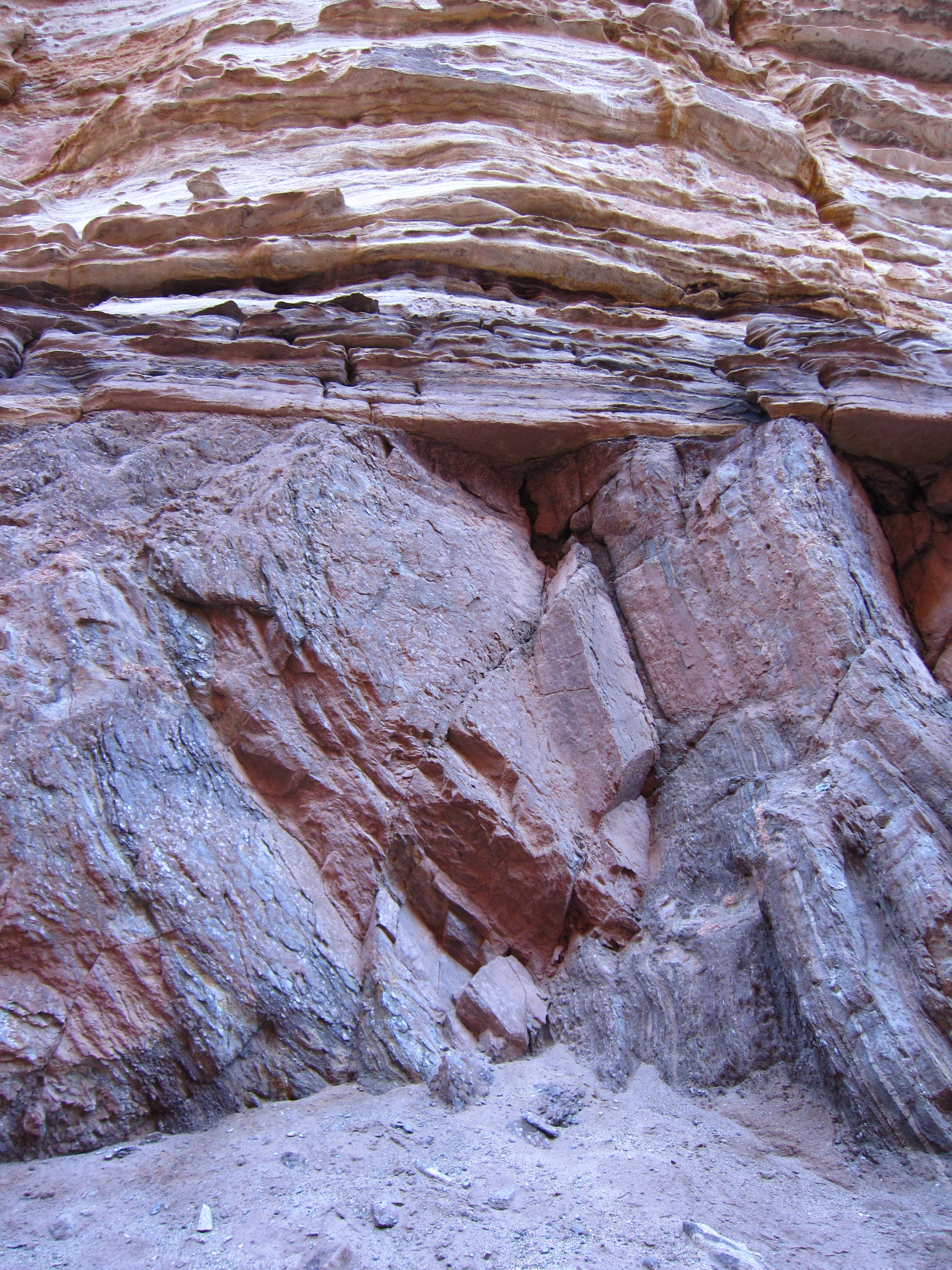 An unconformity in the Grand Canyon, Arizona, USA. This is the "Great Unconformity" between the Vishnu Basement Rocks of Paleoproterozoic age below, and the Tapeats Sandstone of the Tonto Group of Cambrian age above.